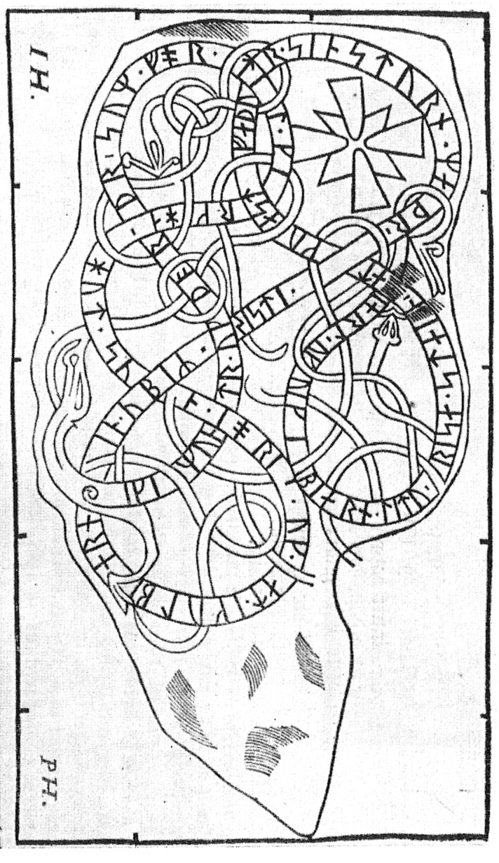 woodcut of runestone U 922 by J. Hadorph and P. Helgonius in Perinskiöld's Monumenta Ullerakensis, p. 40 and B 414.